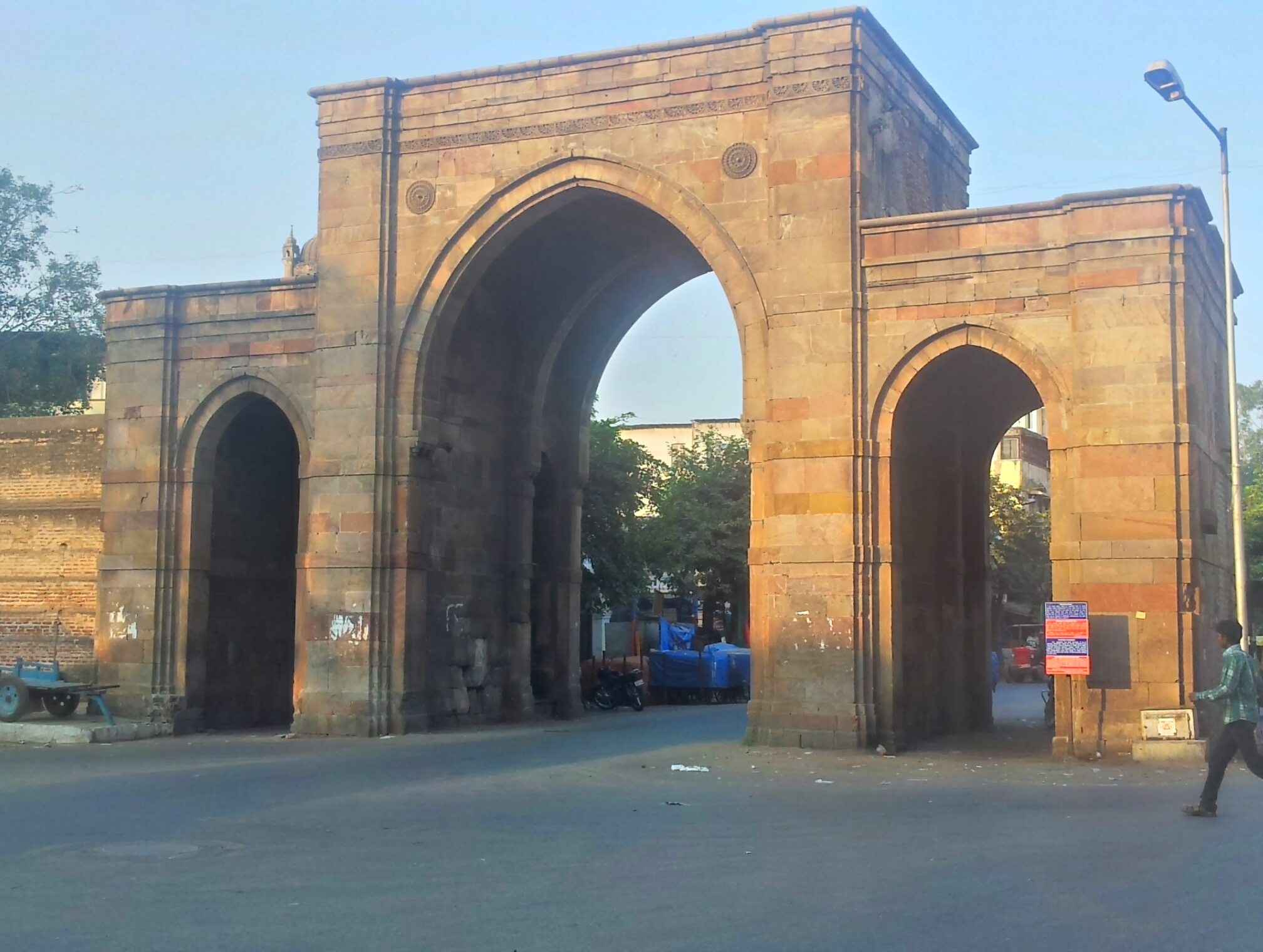 Panch Kuwa gate